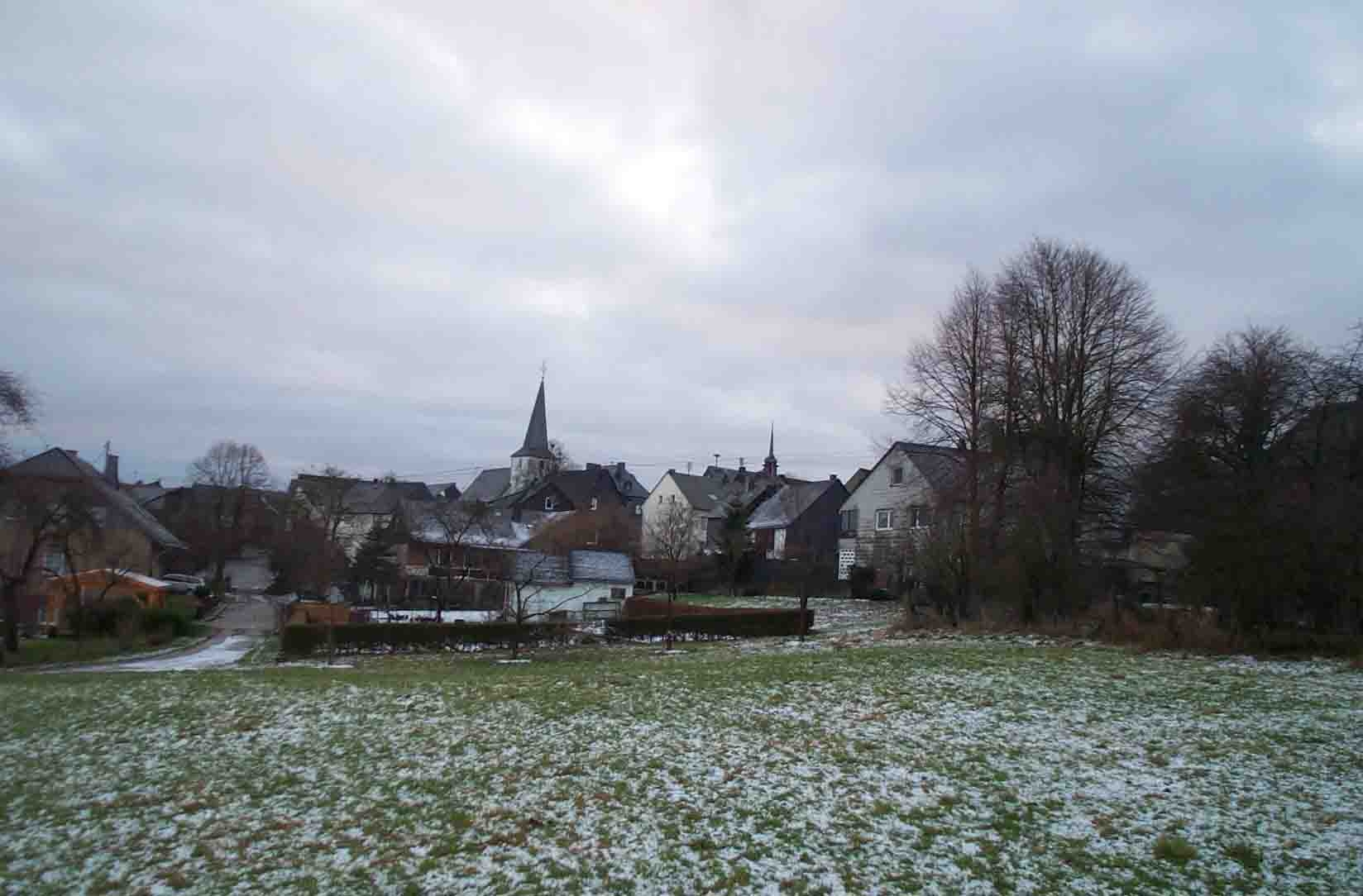 A view of the village of Uhler from westnorthwest ("Bungert" area)